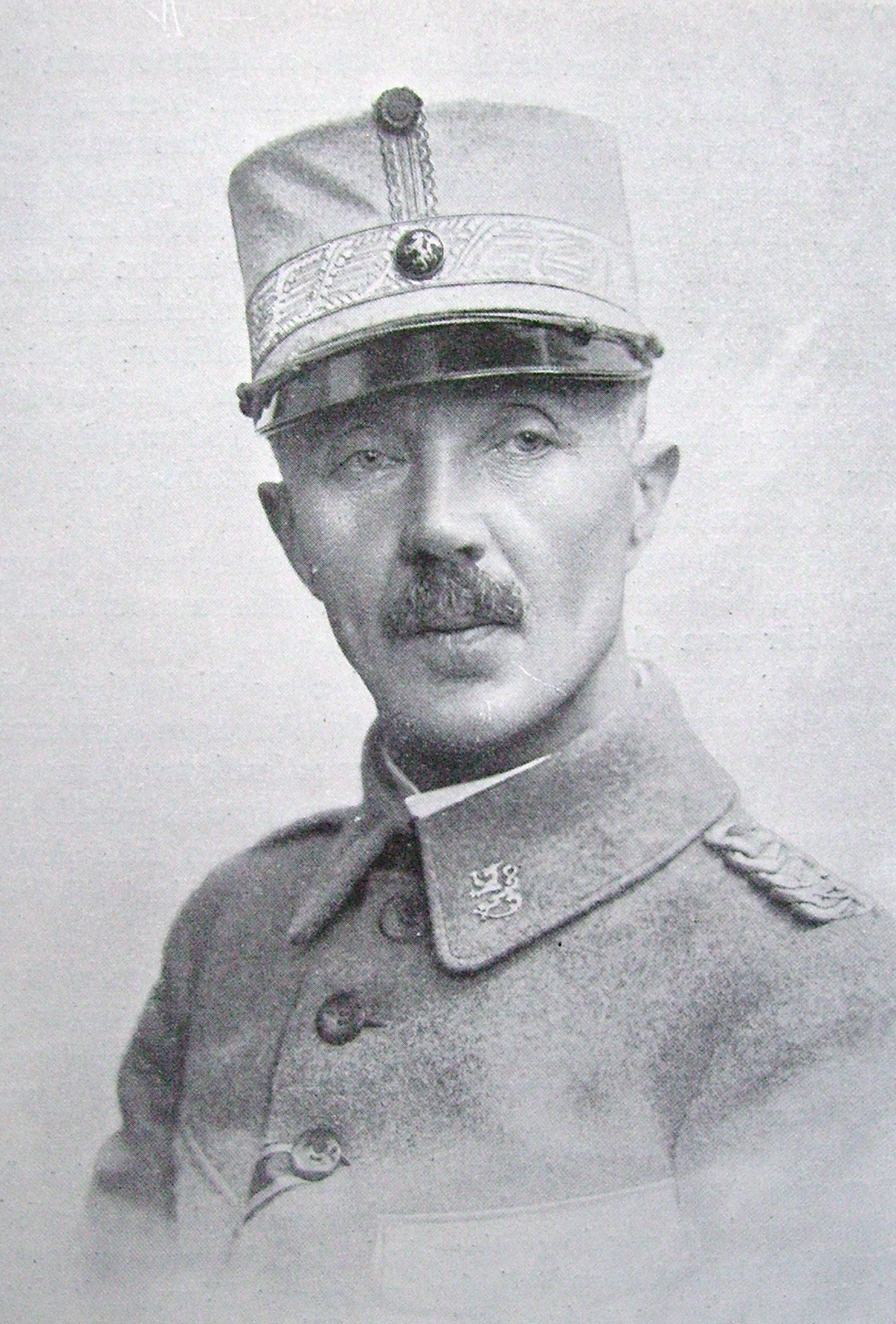 Picture of Martin Wetzer, Finnish officer